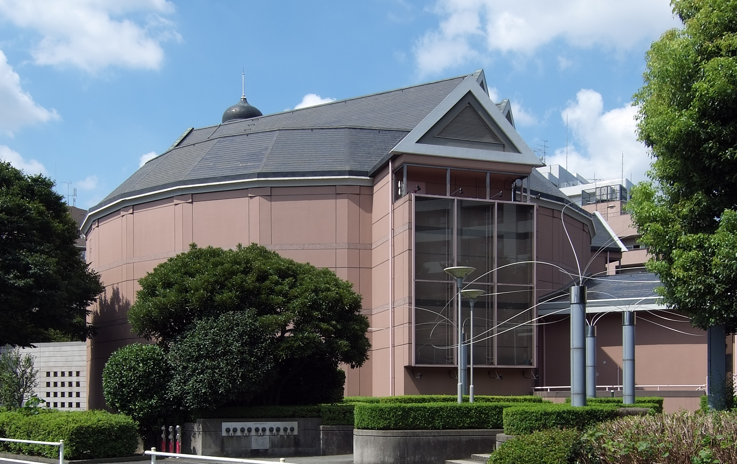 The Globe Tokyo, at Shinjuku-ku Tokyo Japan, designed by Arata Isozaki in 1988.